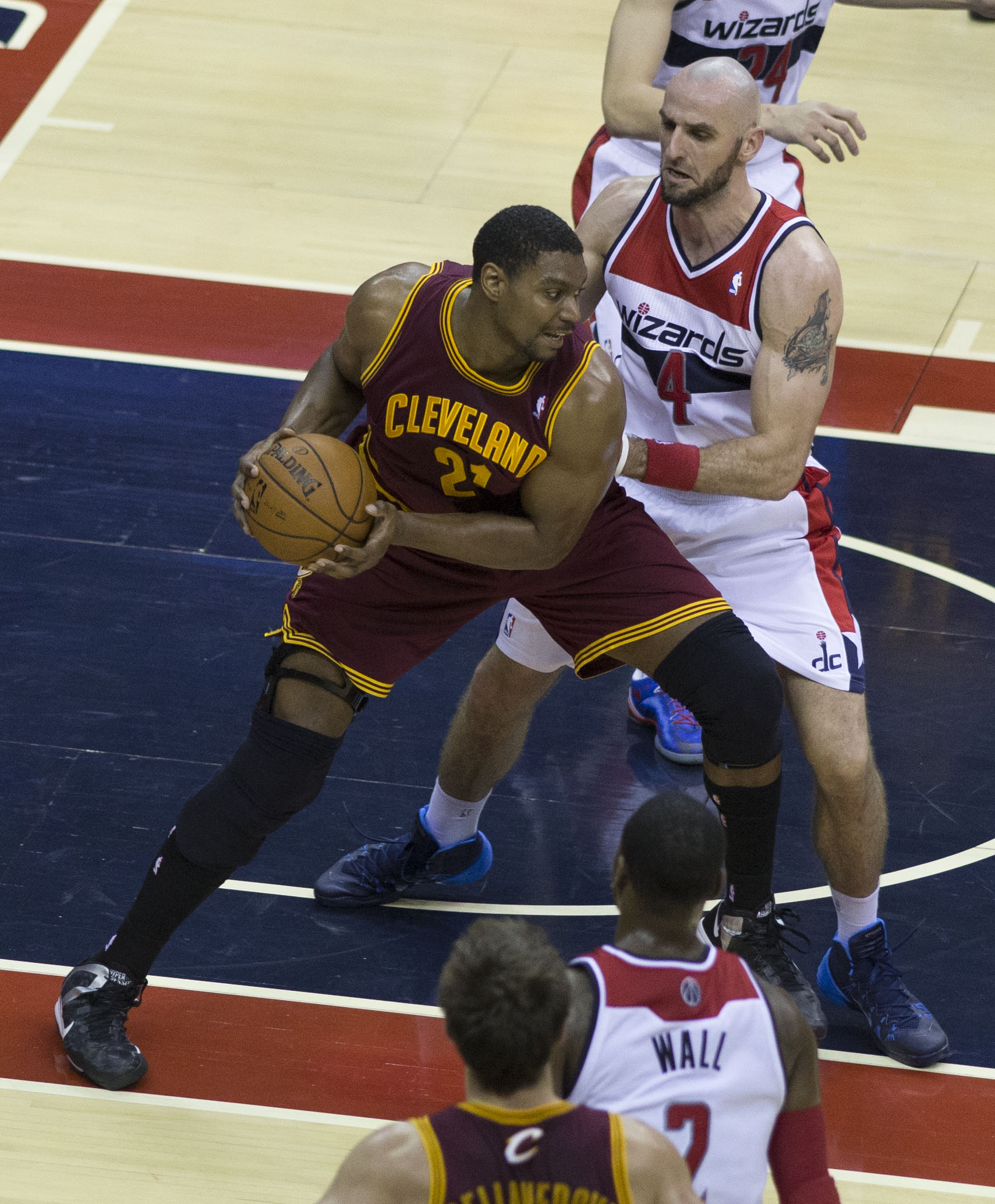 Cleveland Cavaliers center Andrew Bynum (21) is defended by Washington Wizards center Marcin Gortat (4) in a game at Verizon Center in Washington DC on November 17, 2013.